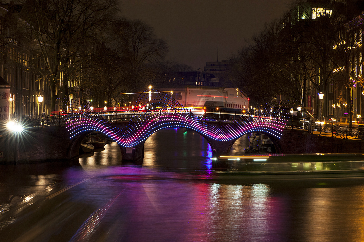 Lightbridge, an installation by Frank Tjepkema.